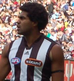 taken by popunkchroma on 11/06/2007 during the pre-game warm-up at the MCG in Melbourne, Australia